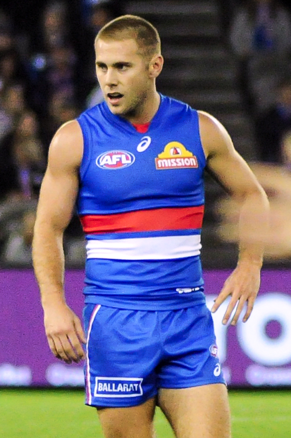 Caleb Daniel during the AFL round six match between the Western Bulldogs and Carlton on Friday, 27 April 2018 at Etihad Stadium in Melbourne, Victoria.